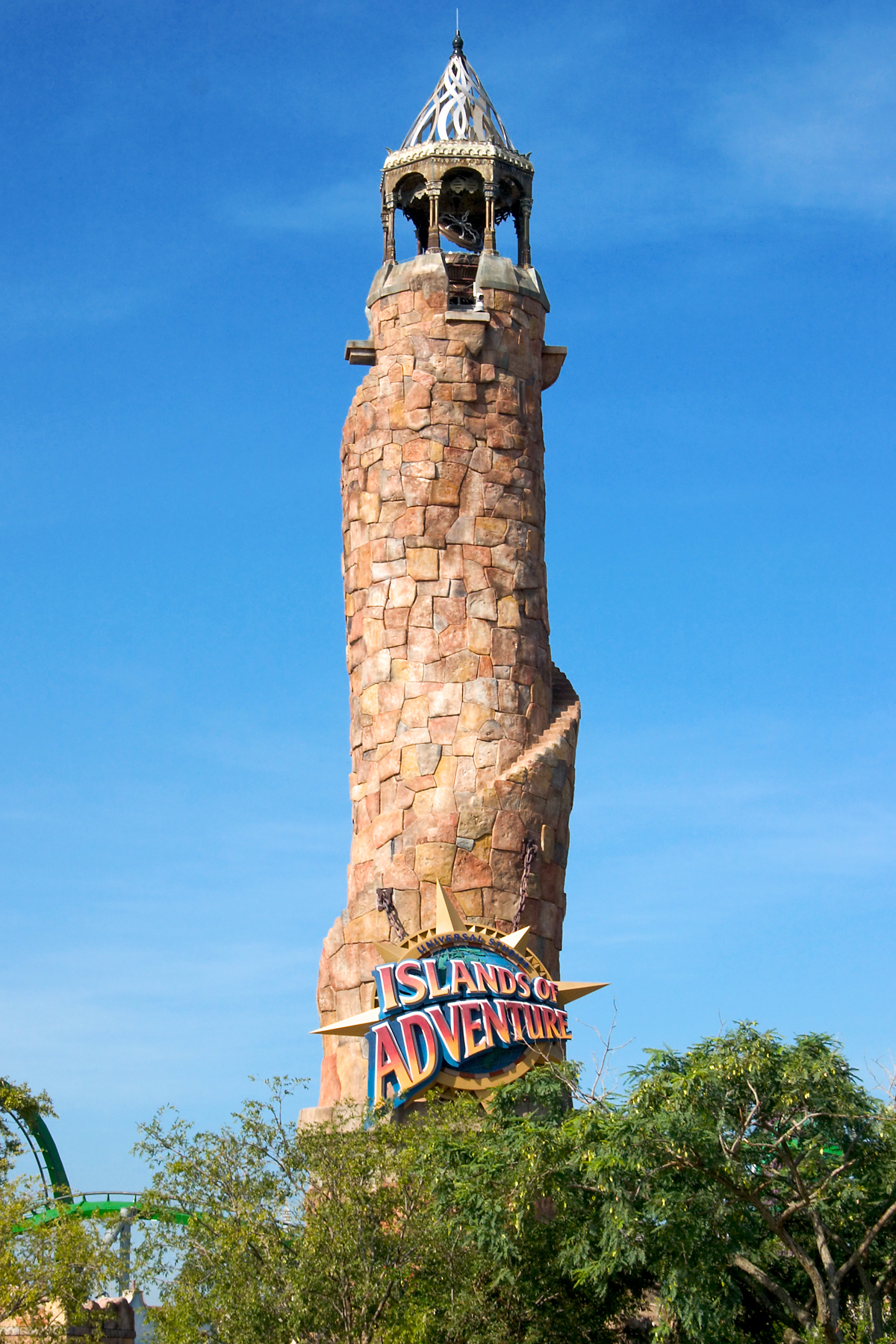 The "Icon" tower at Universal Studios' Islands of Adventure, Orlando, Florida.